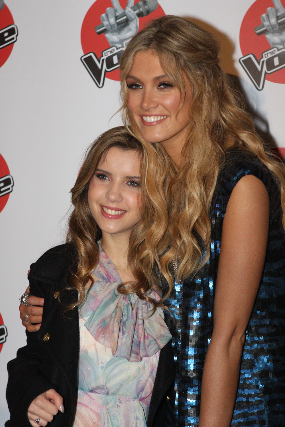 Rachael Leahcar and Delta Goodrem at The Voice (Australia) media conference in Hordern Pavilion, Moore Park.